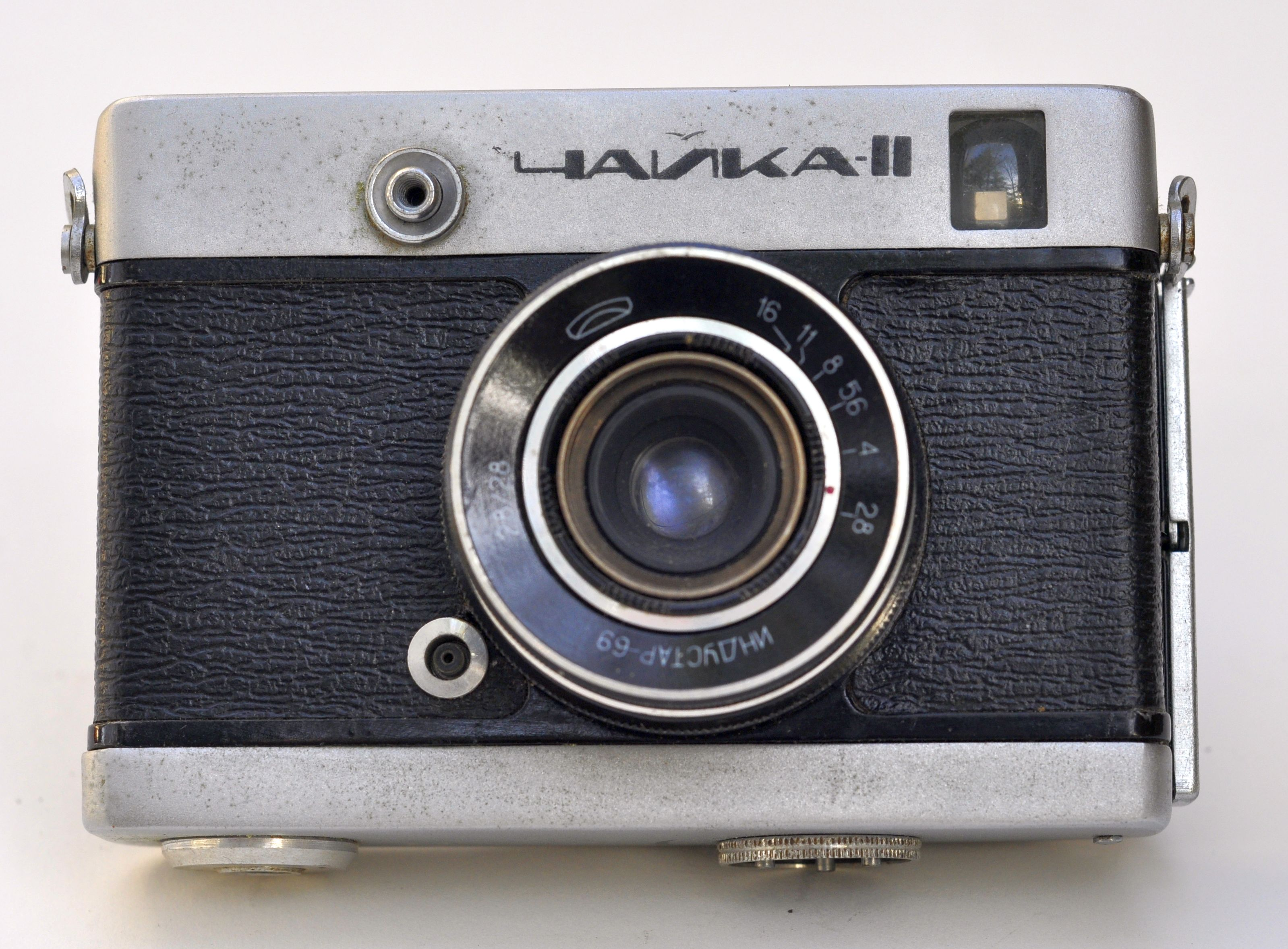 Chaika 2 from my collection.